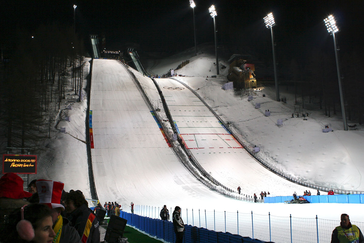 Olympic ski jumping hills at Paragelato (Torino)